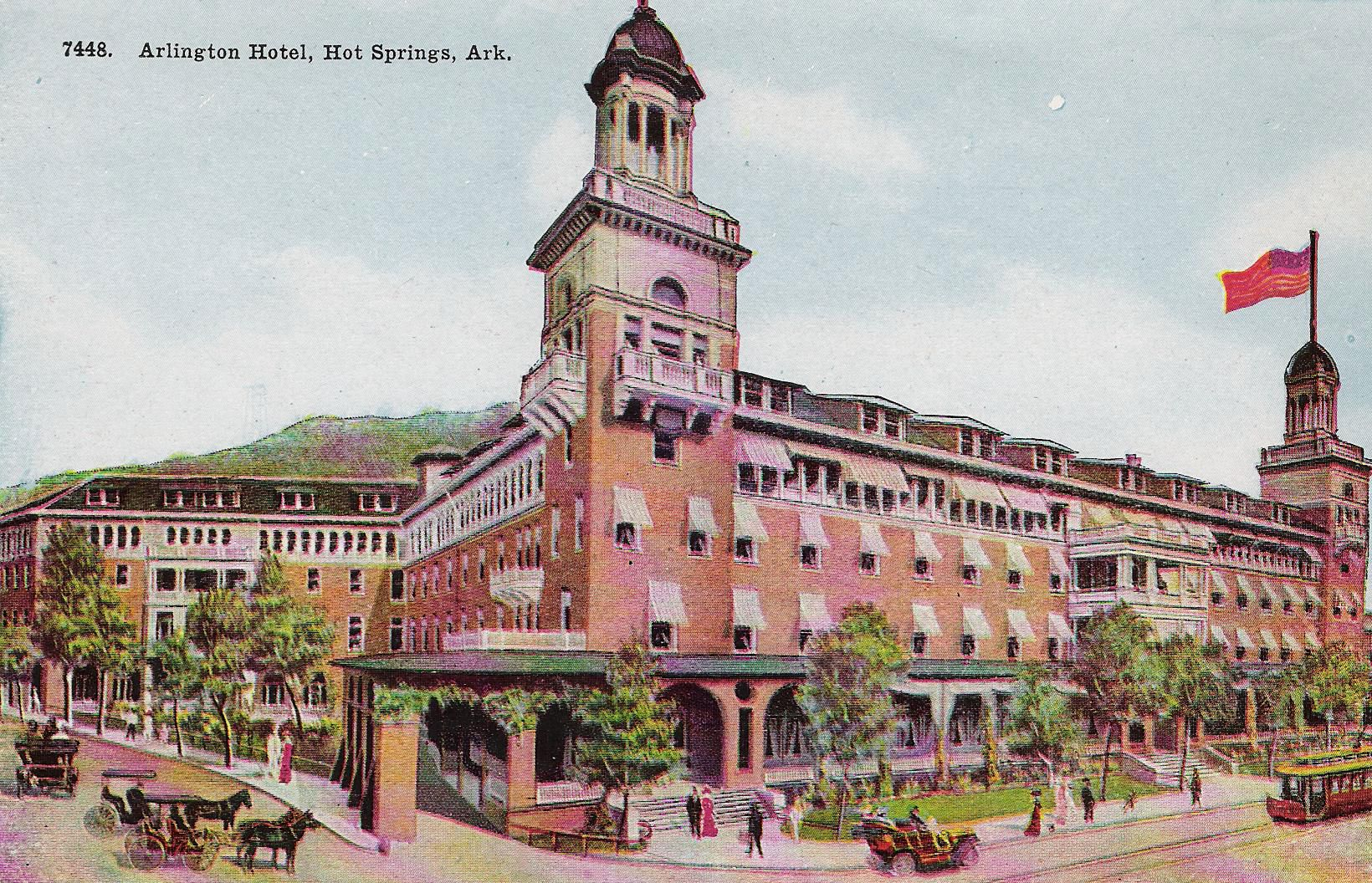 "Constructed in 1893, the second Arlington Hotel contained 300 rooms. The paired observatory towers of the Spanish Renaissance revival structure dominated the north end of Bathhouse Row. The hotel provided numerous diversions for its guests, including three concerts every day. The architectural firm of McClure, Stewart, and Mullgardt of St. Louis designed the building. Louis Mullgardt left that firm shortly after the Arlington's construction and went to San Francisco, where he spent the rest of his productive carreer. Mullgardt, best known as a California architect, designed a number of major commercial and residential structures in the Bay Area, including the Court of the Ages for the 1915 Panama-Pacific Exposition and the M.H. de Young Memorial Museum." - Paige, John C; Laura Woulliere Harrison (1987). Out of the Vapors: A Social and Architectural History of Bathouse Row, Hot Springs National Park. U.S. Department of the Interior.